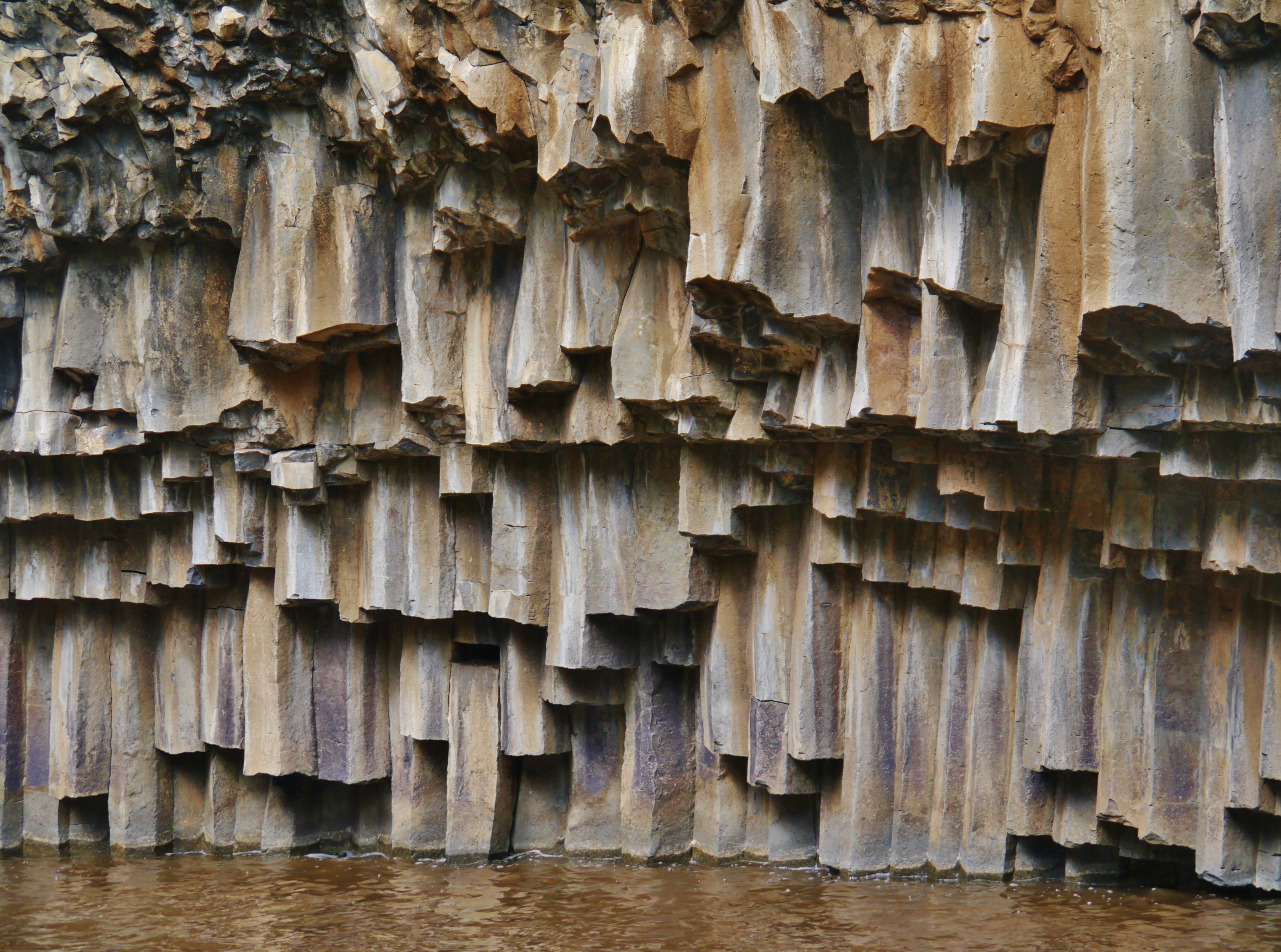 Hexagon Pool on Golan Hights, Israel